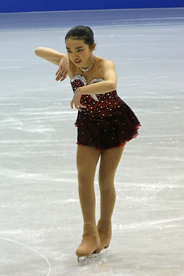 Photos – Junior World Championships 2014 – Ladies (Karen Chen)